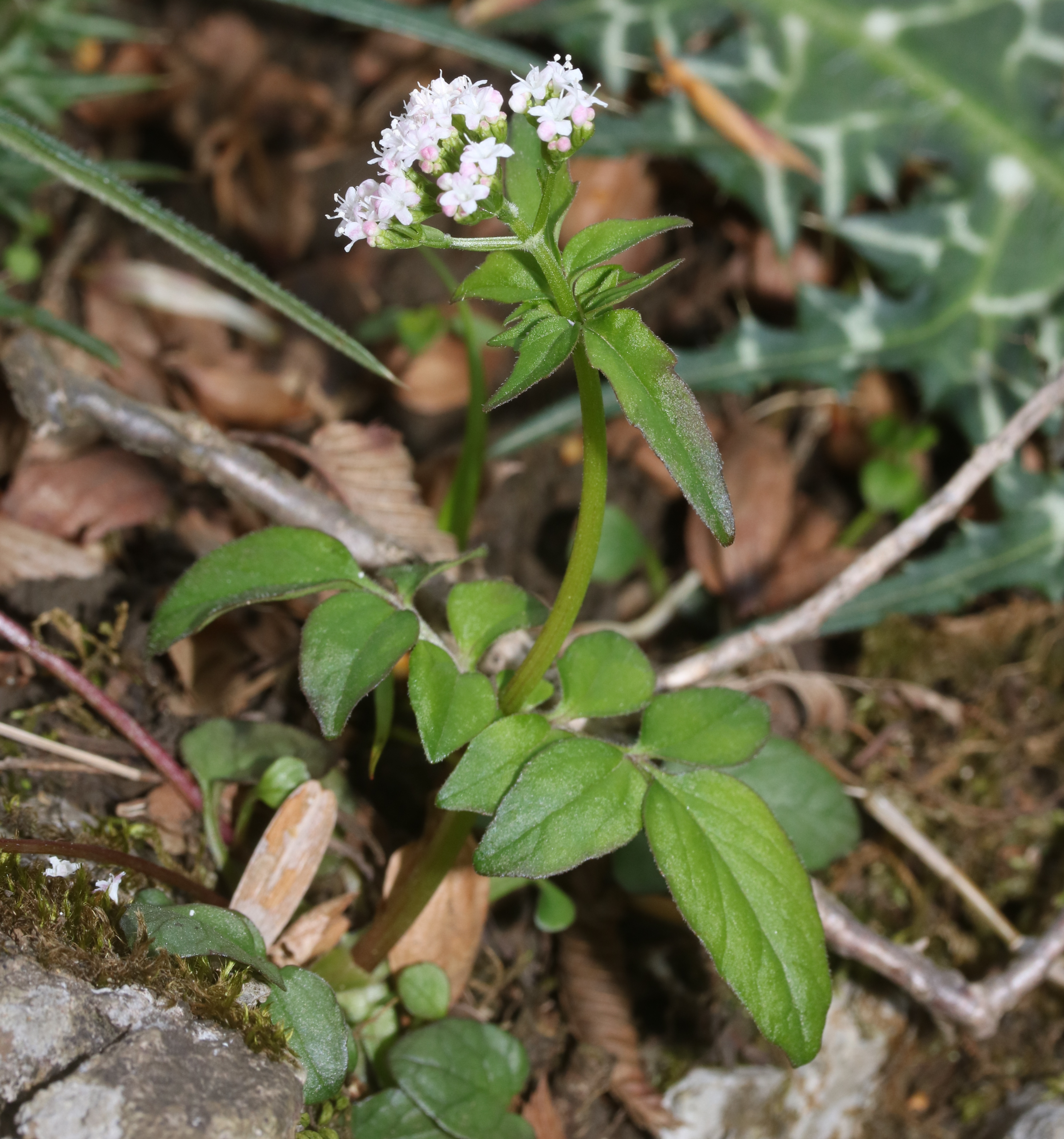 Valeriana flaccidissima in Mount Fujiwara, Inabe, Mie prefecture, Japan.